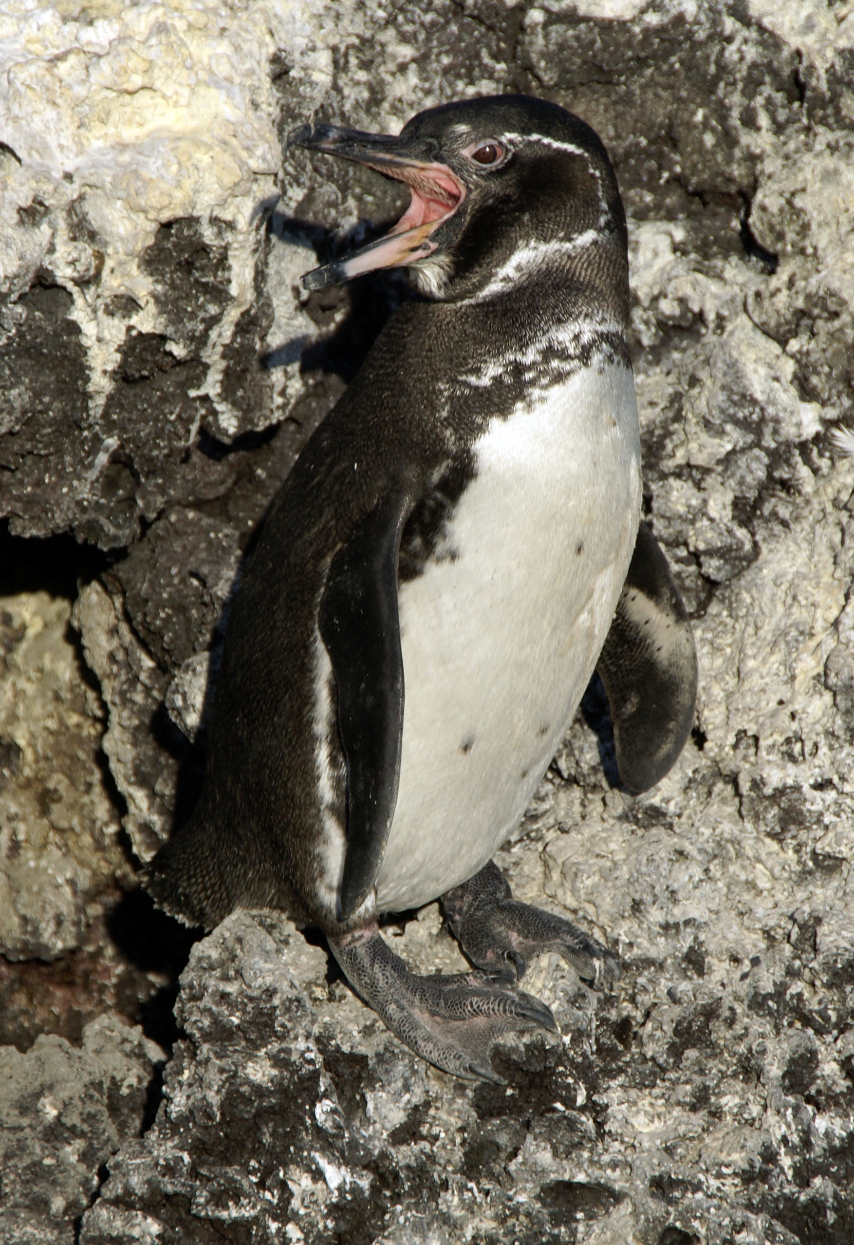 Galapagos penguin (Spheniscus mendiculus) at Elizabeth Bay on the island of Isabela, Galapagos.